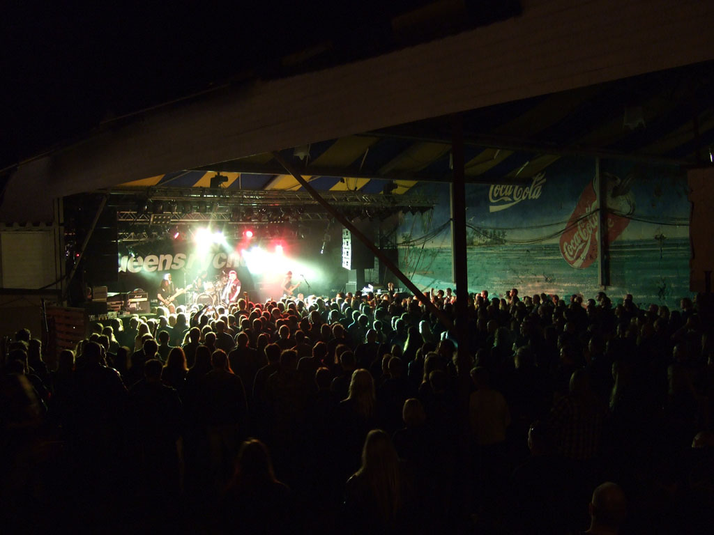 Image of Tapperiet during the Metal Heart festival. Queensrÿche on stage.